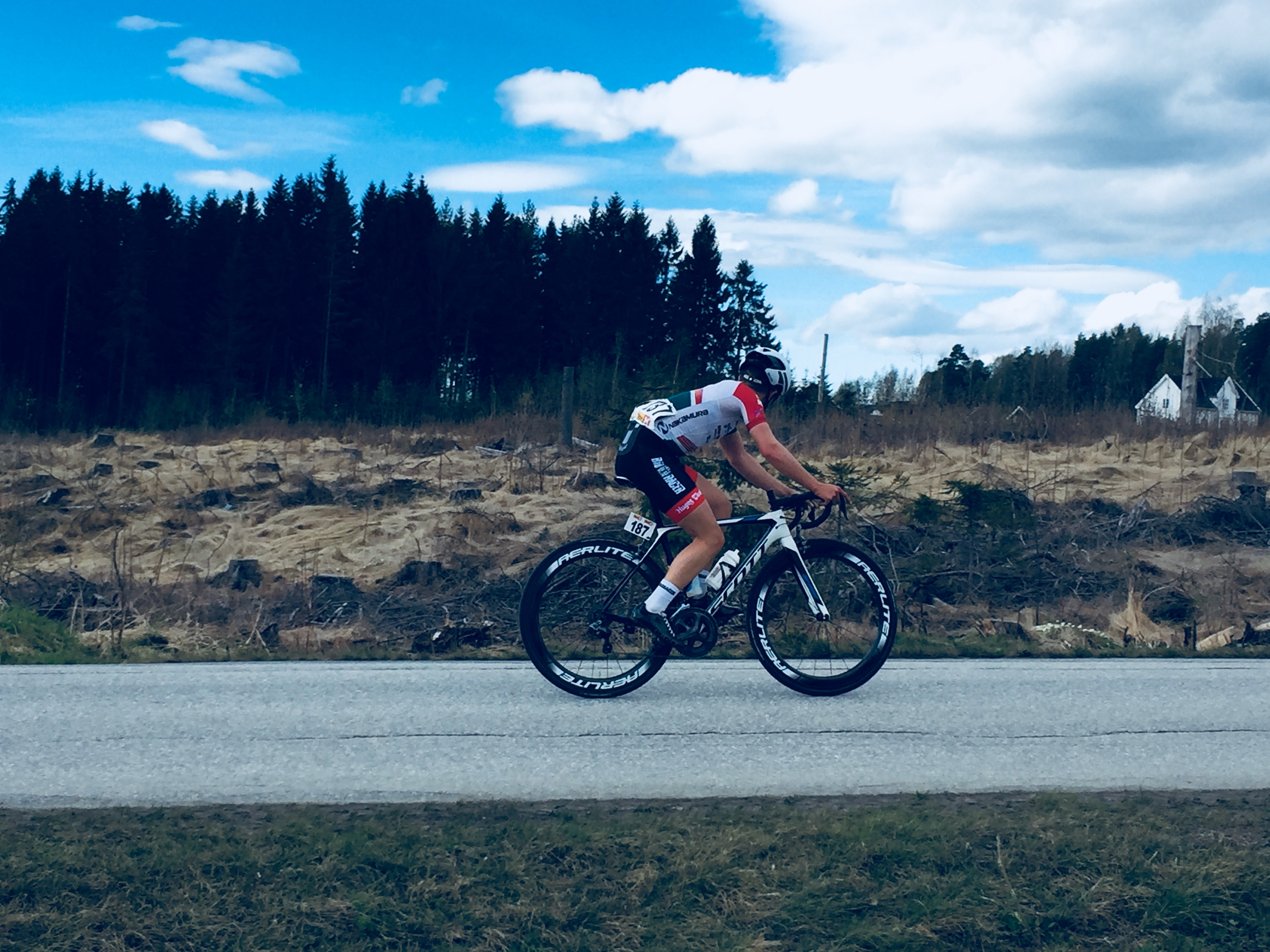 Norwegian cyclist Vidar Vikestad (b. 1997) at Ringerike Grand Prix 2018.